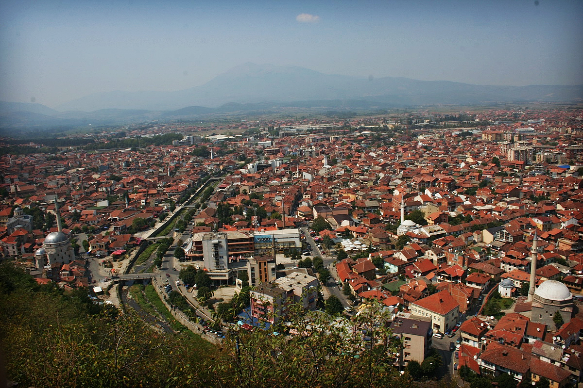 The city of Prizren, Kosovo, 2008